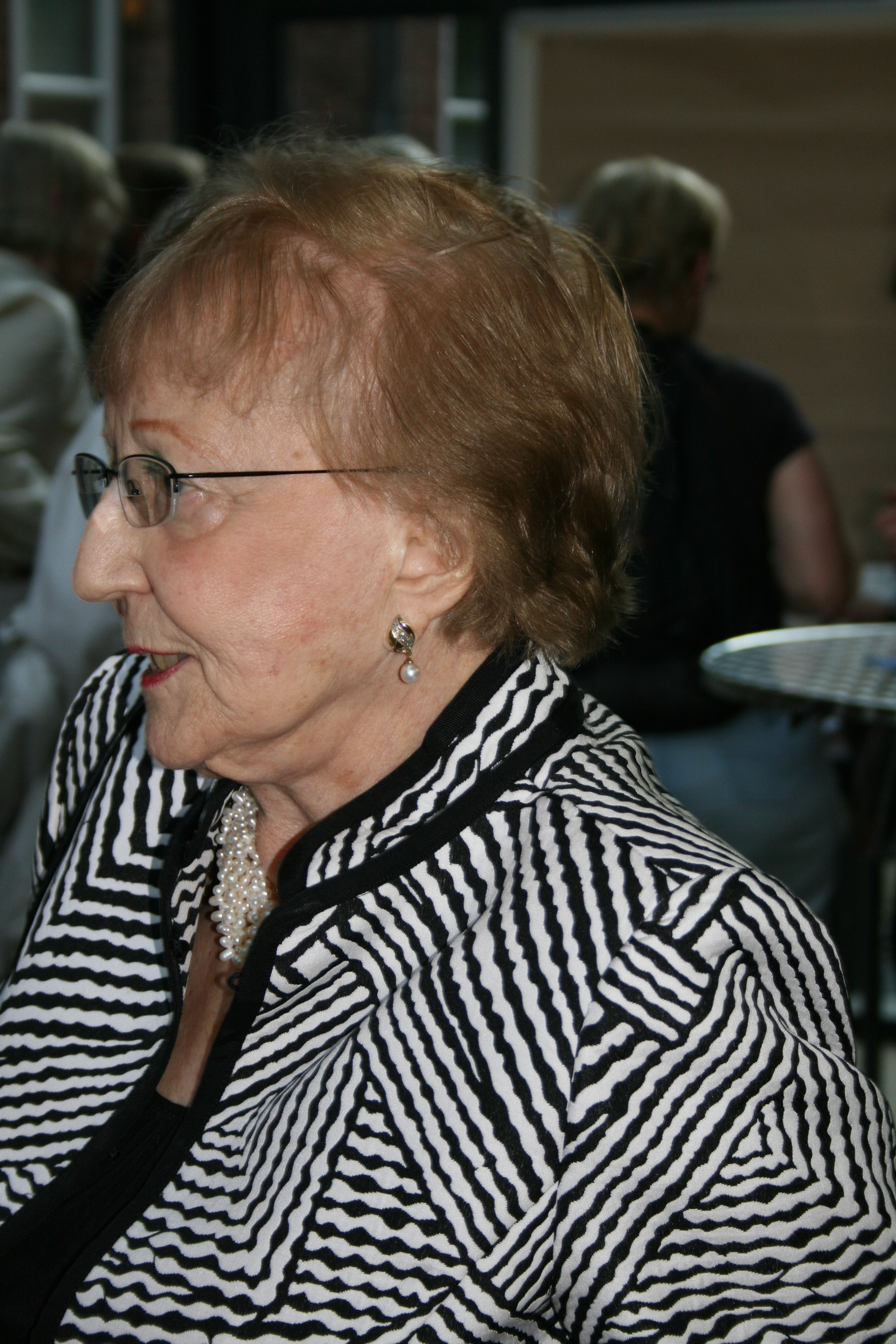 Lucille Eichengreen at a meeting in the Lawaetz-House Hamburg-Ottensen